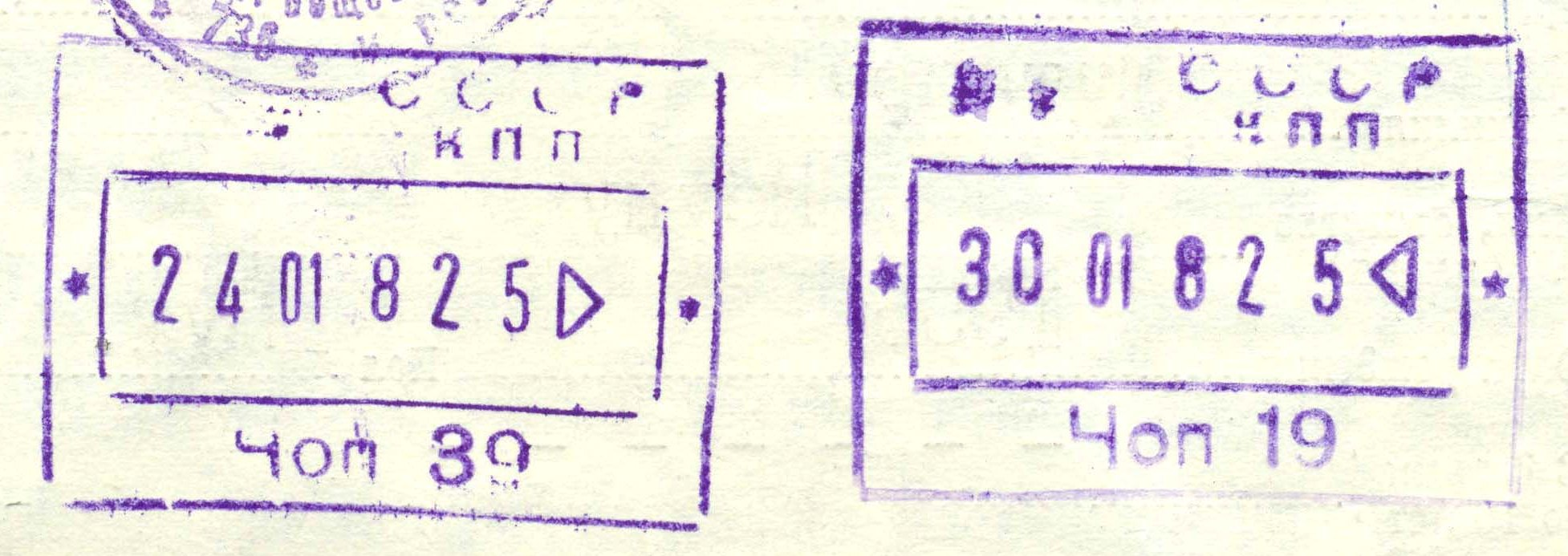 Old USSR passport stamps from 1982 from Chop, now in Ukraine.